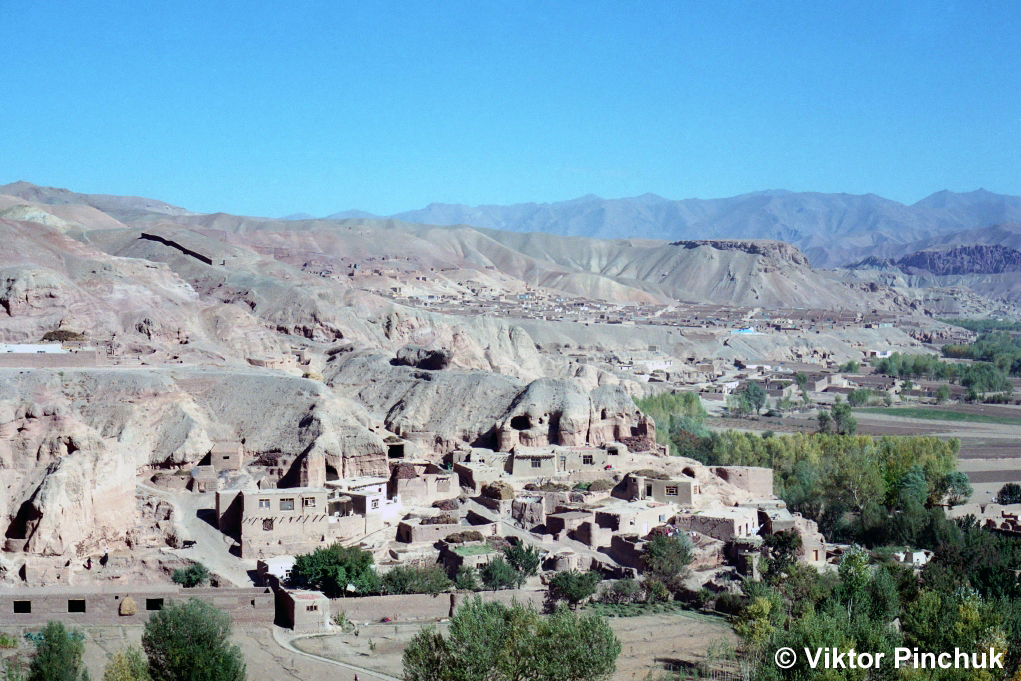 A settlement located 130 kilometers from Kabul.